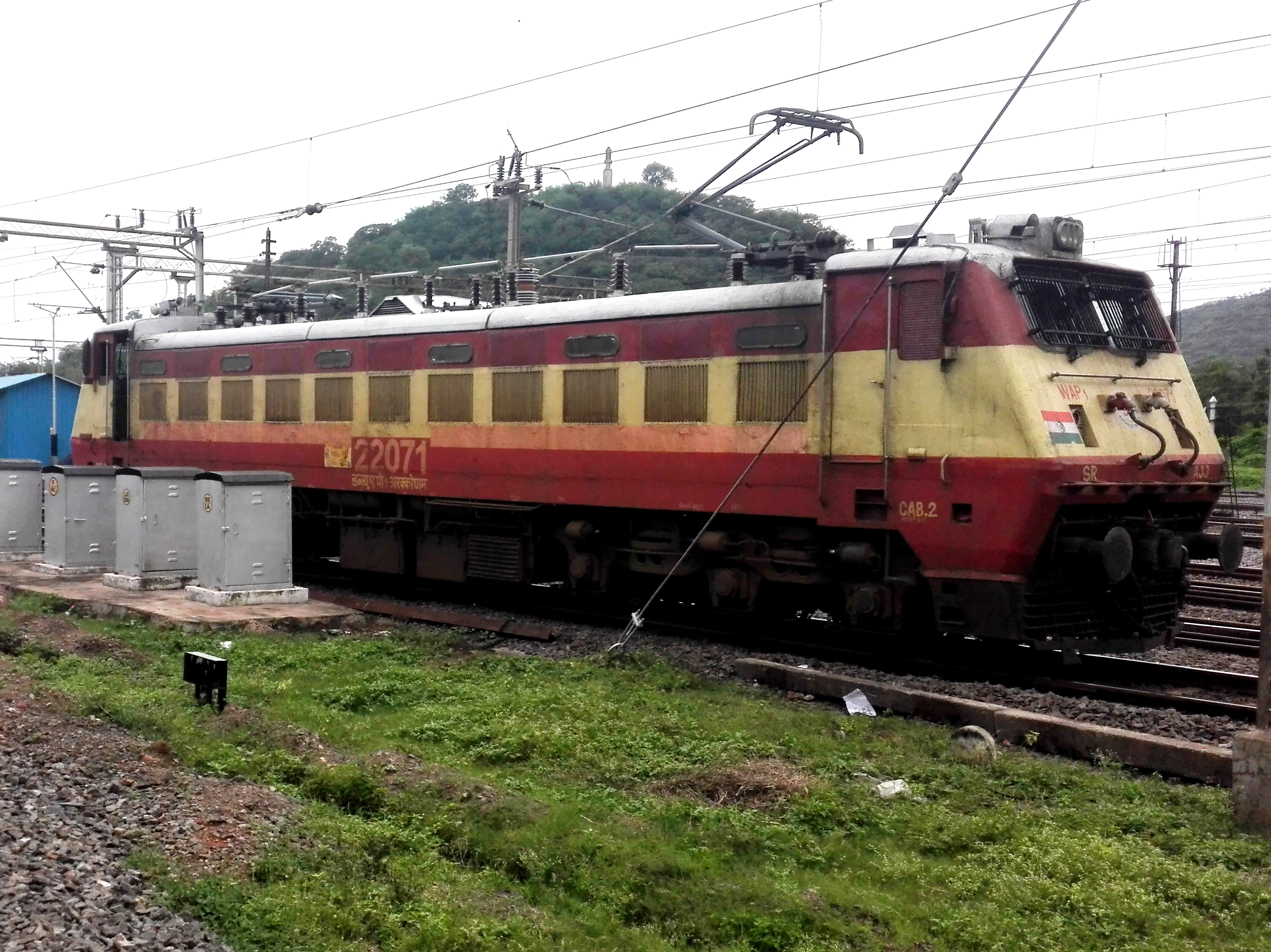 (22071) Arakkonam (AJJ) based WAP 1 Loco at Vijayawada Junction